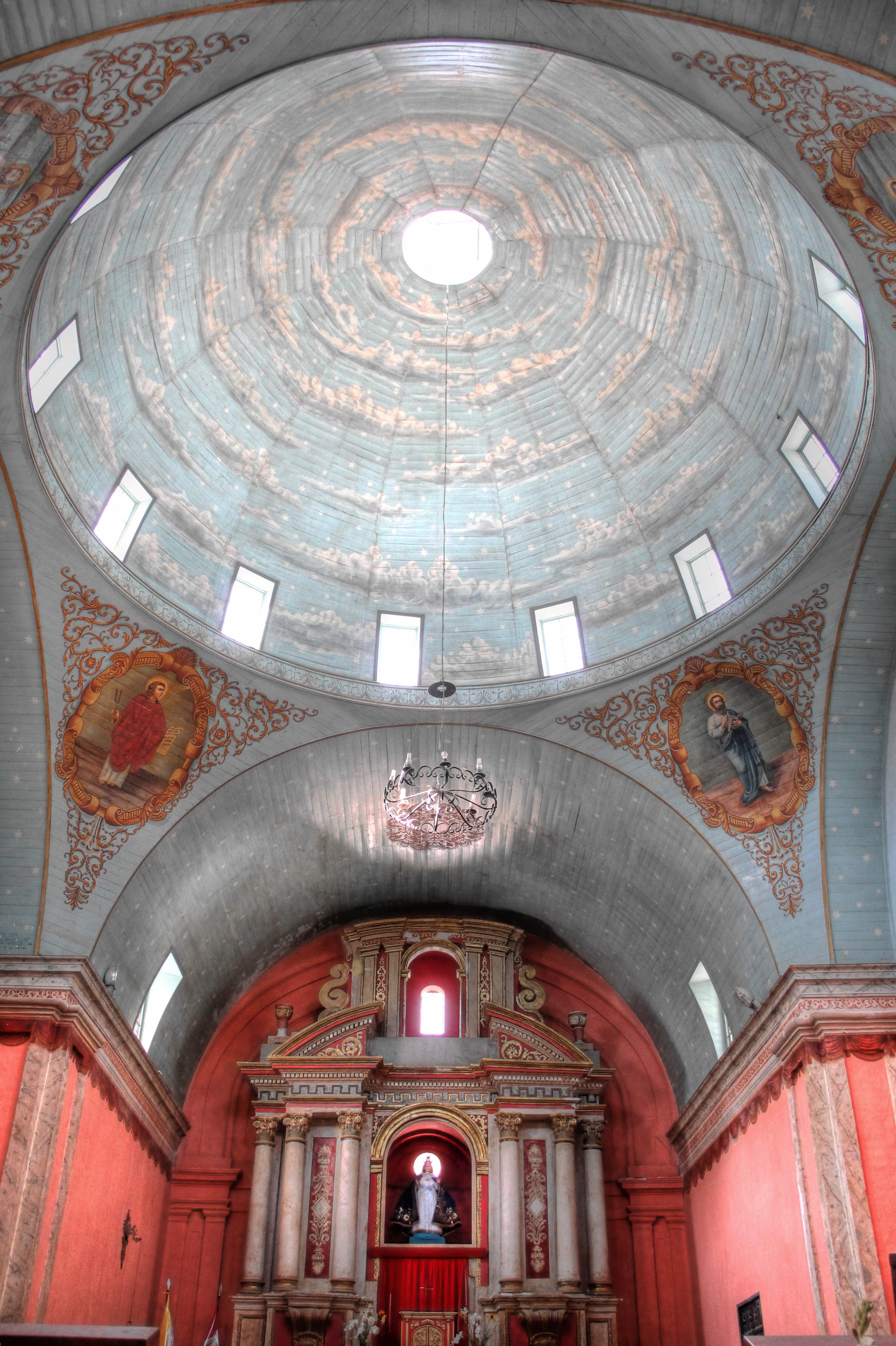 Dome and altar of the First Church of Santiago Apostol